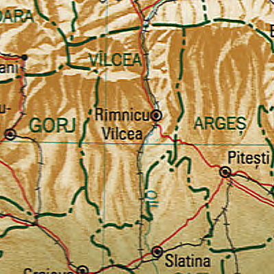 Map of Vâlcea County, Romania.